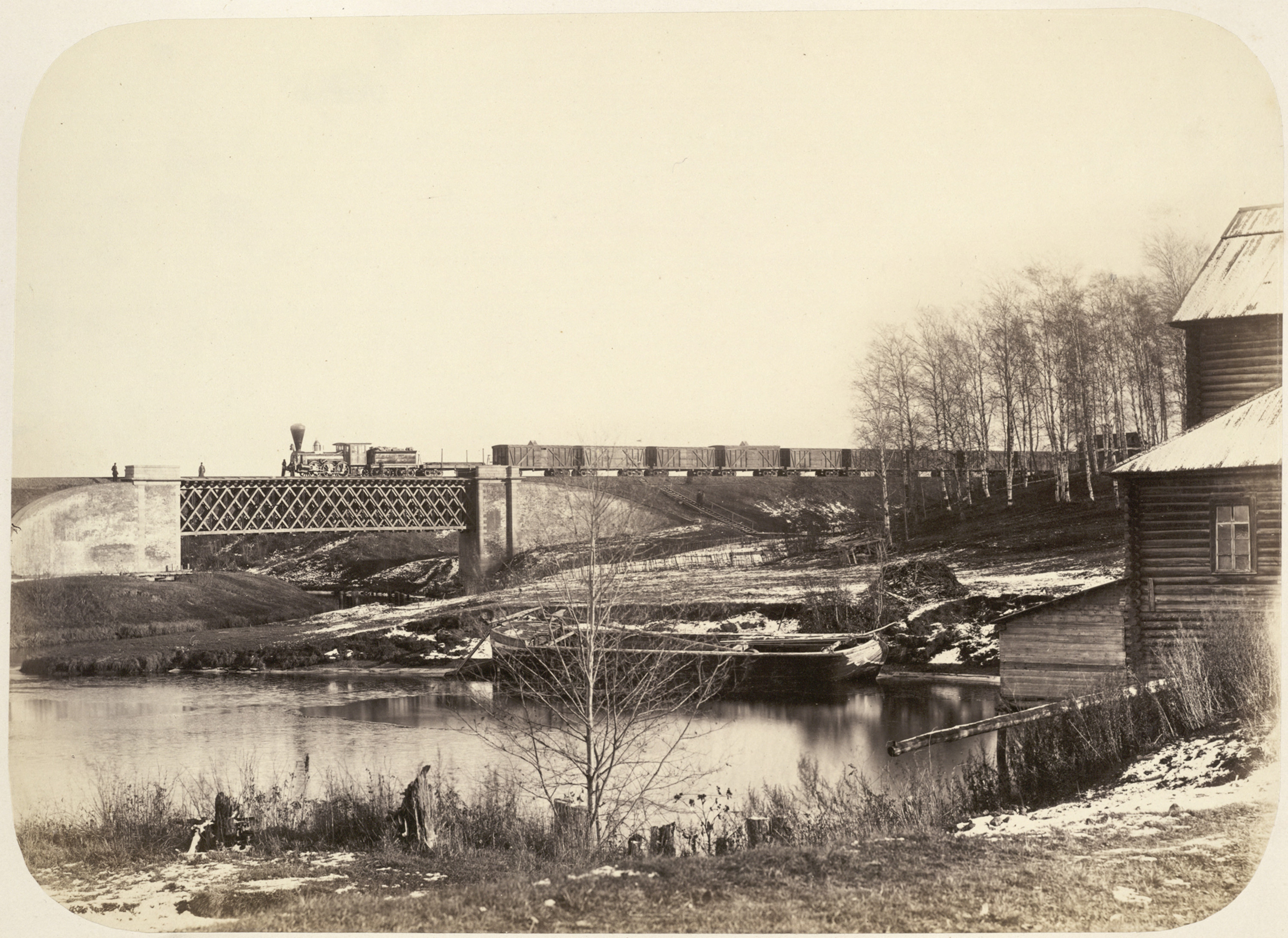 railway bridge on Nikolaev Railway. Steam locomotives Г (0-3-0), with boxcars.